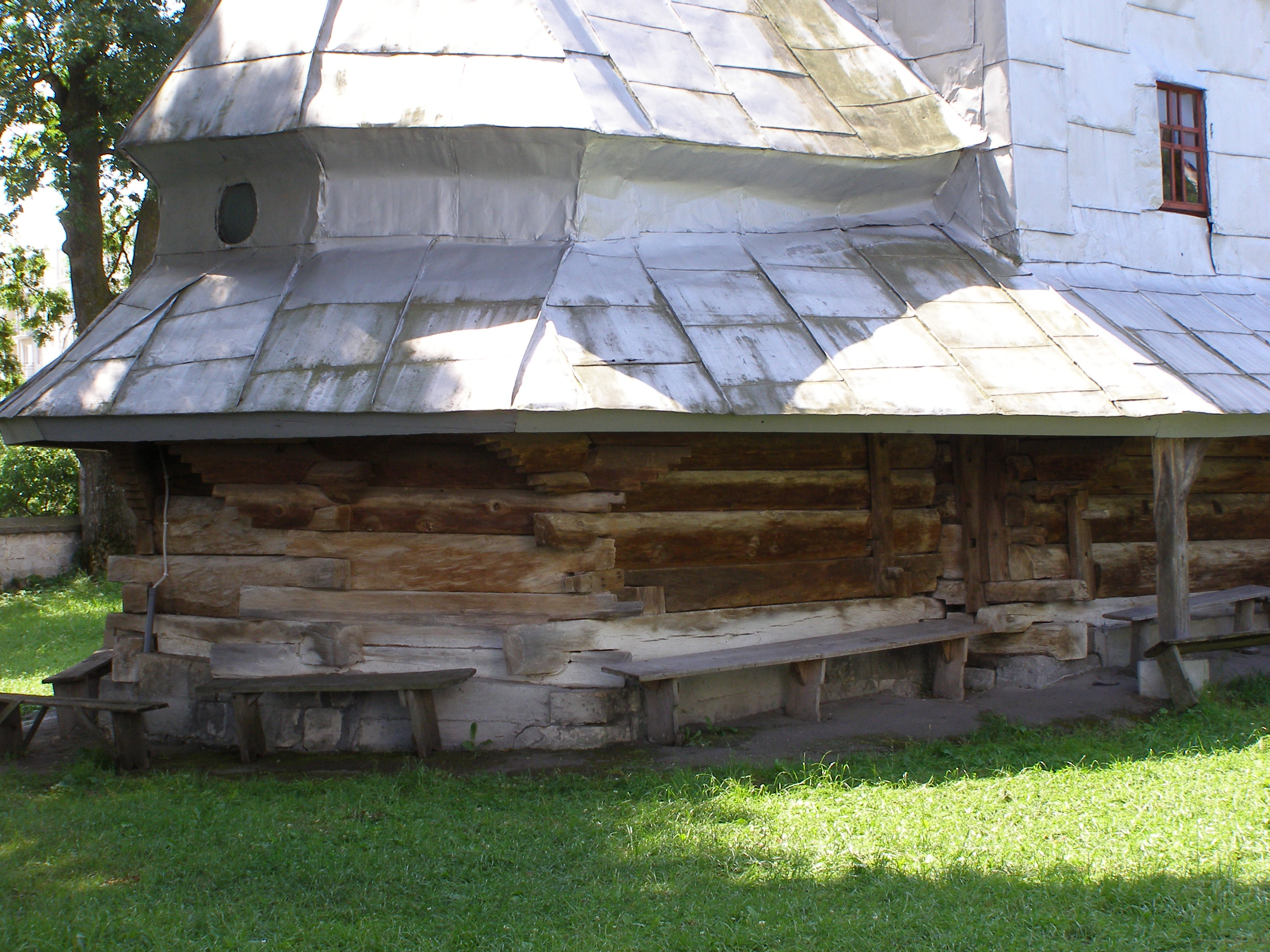 Saint Nicholas Church in Berezhany, Ternopil Oblast, western Ukraine.